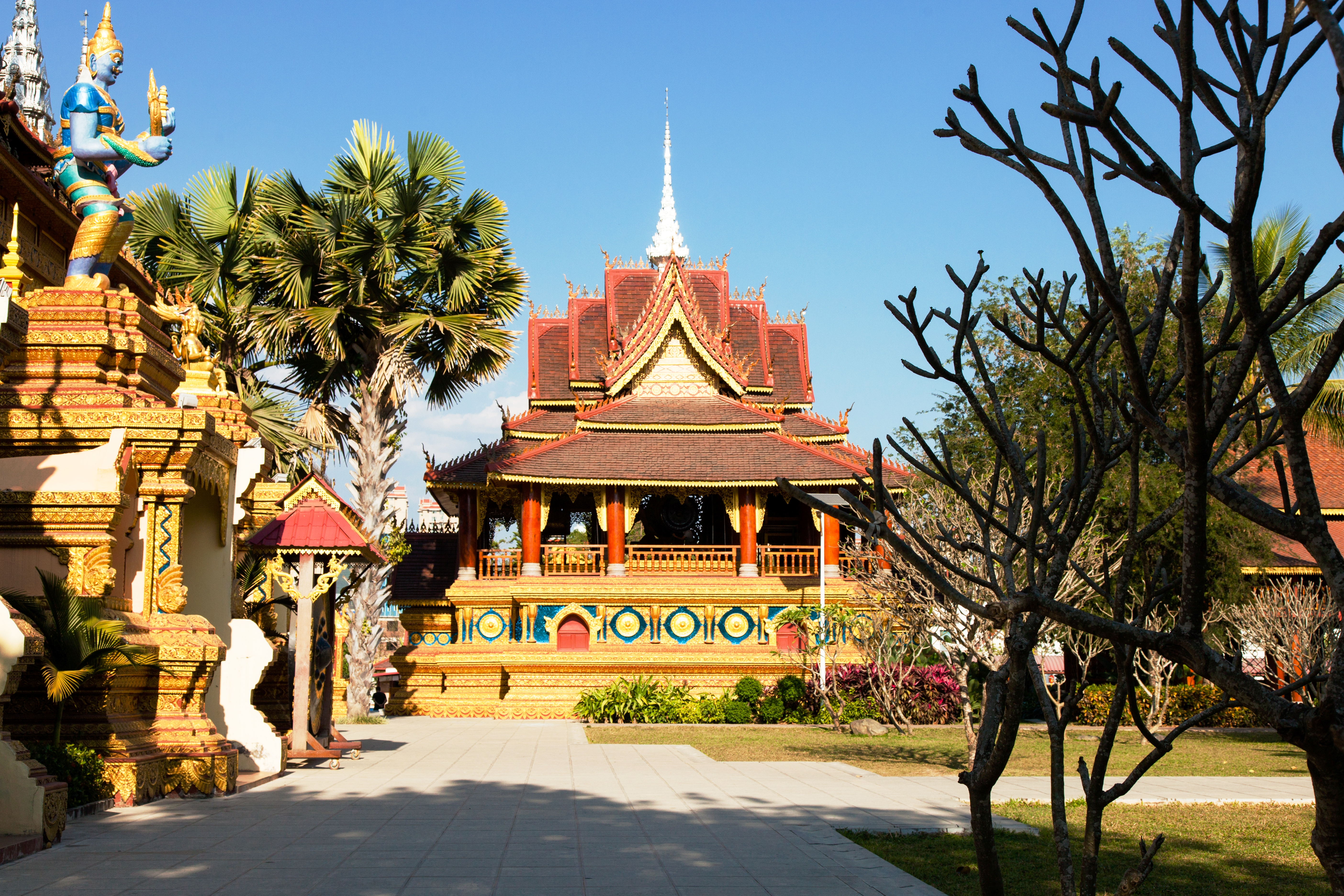 Wat Chienglarn at Jinghong, Xishuangbanna, Yunnan, China.